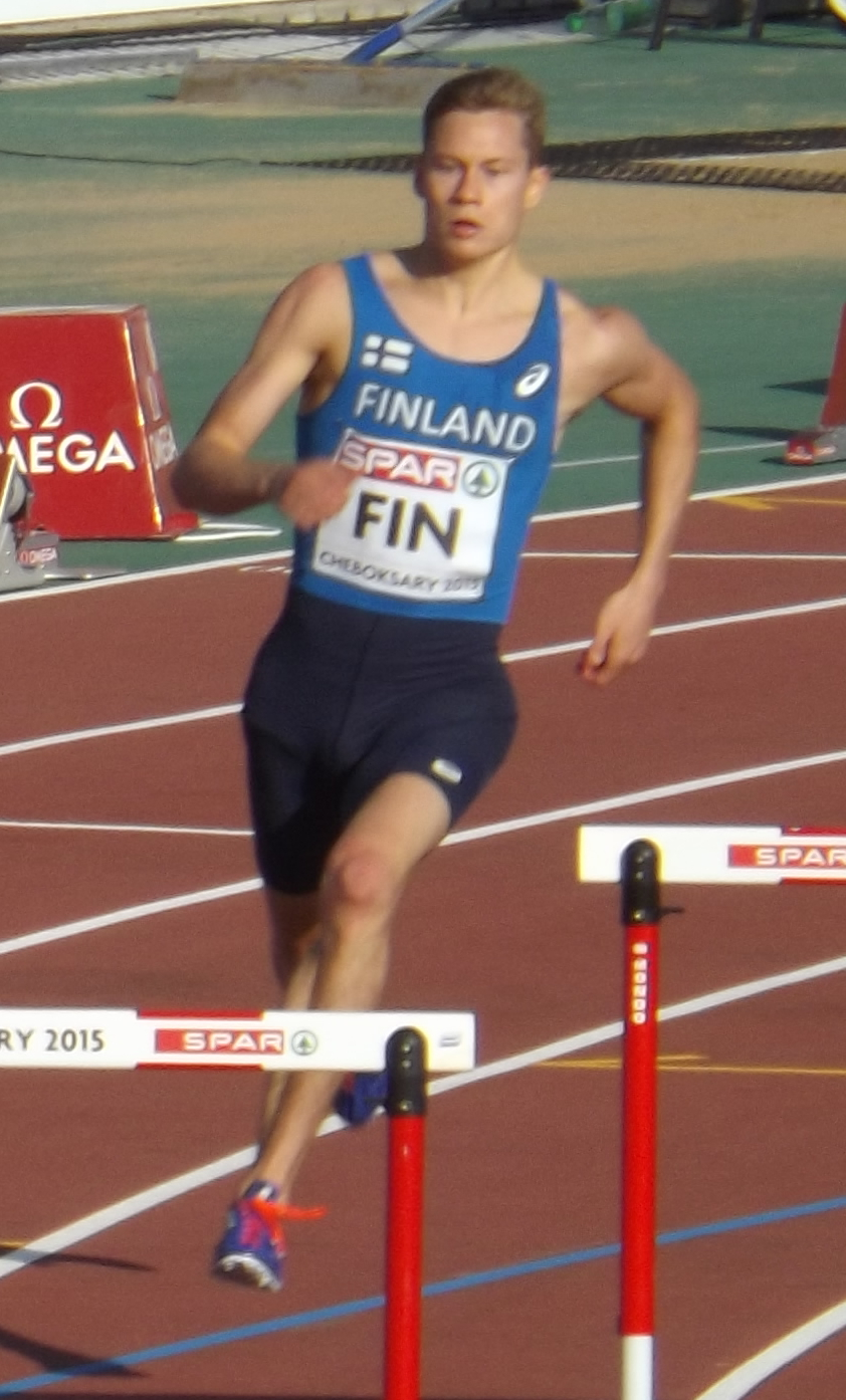 Oskari Mörö competing at the 2015 European Team Championships